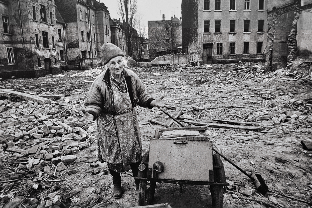 Leipzig-Connewitz, Frau Heine